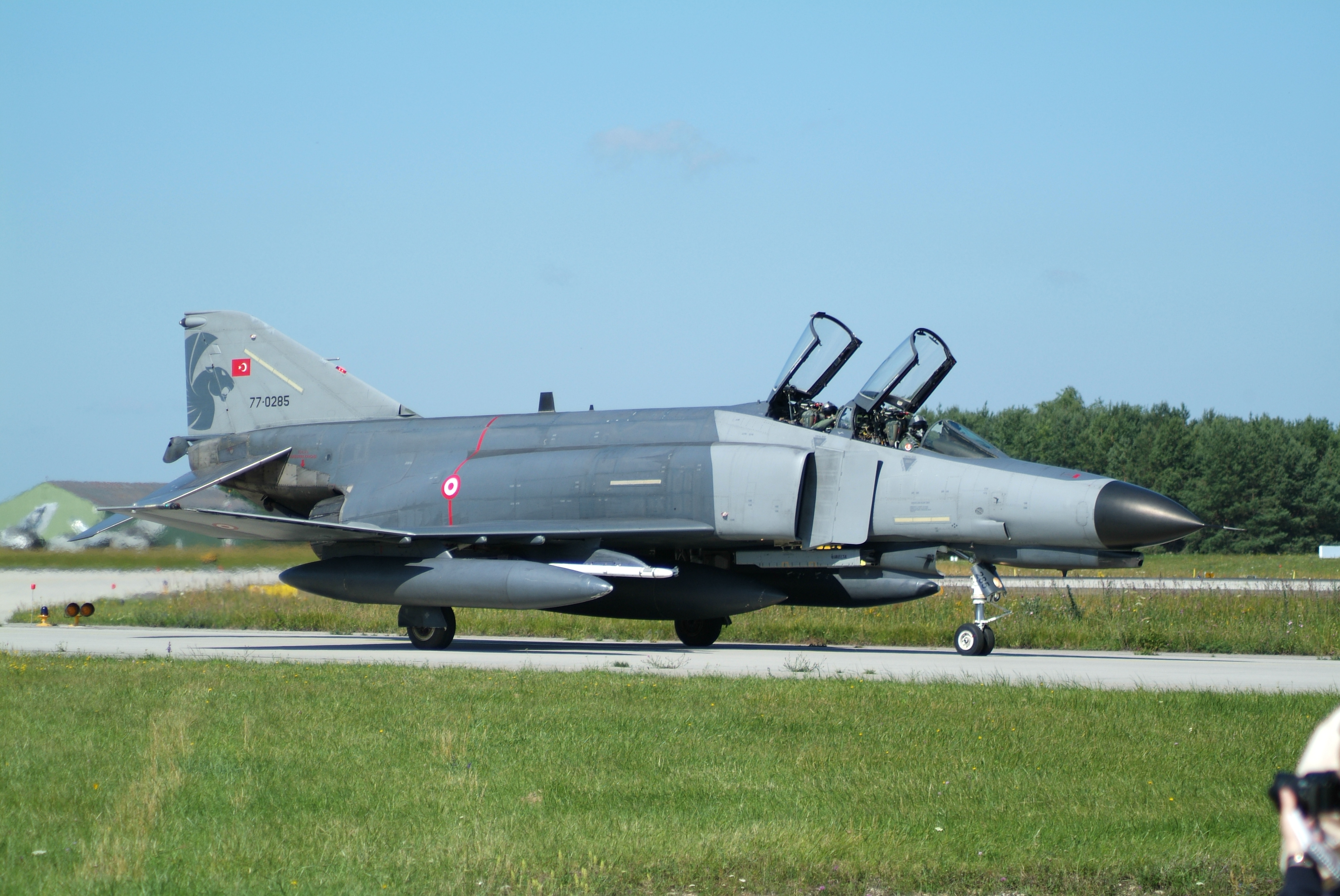 I make no apologies for posting lots of the the F-4E. I love them with the canopies up like this. These are up graded phantoms, called F-4E-2020 Terminators by the Turks